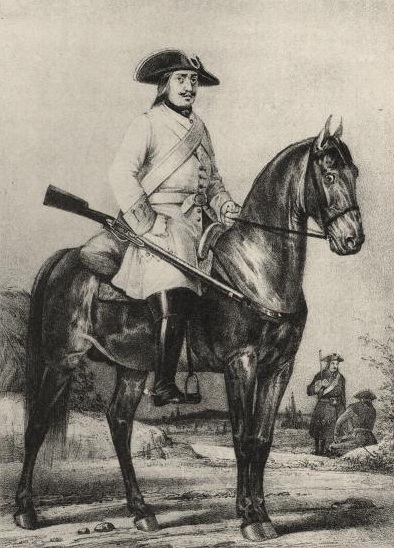 Russian dragoon in 1700-1720.